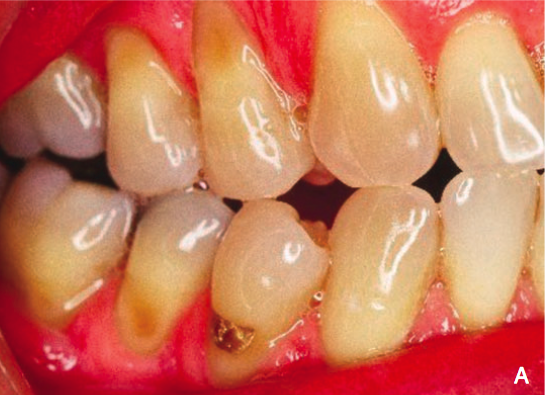 Multifactorial noncarious cervical lesions